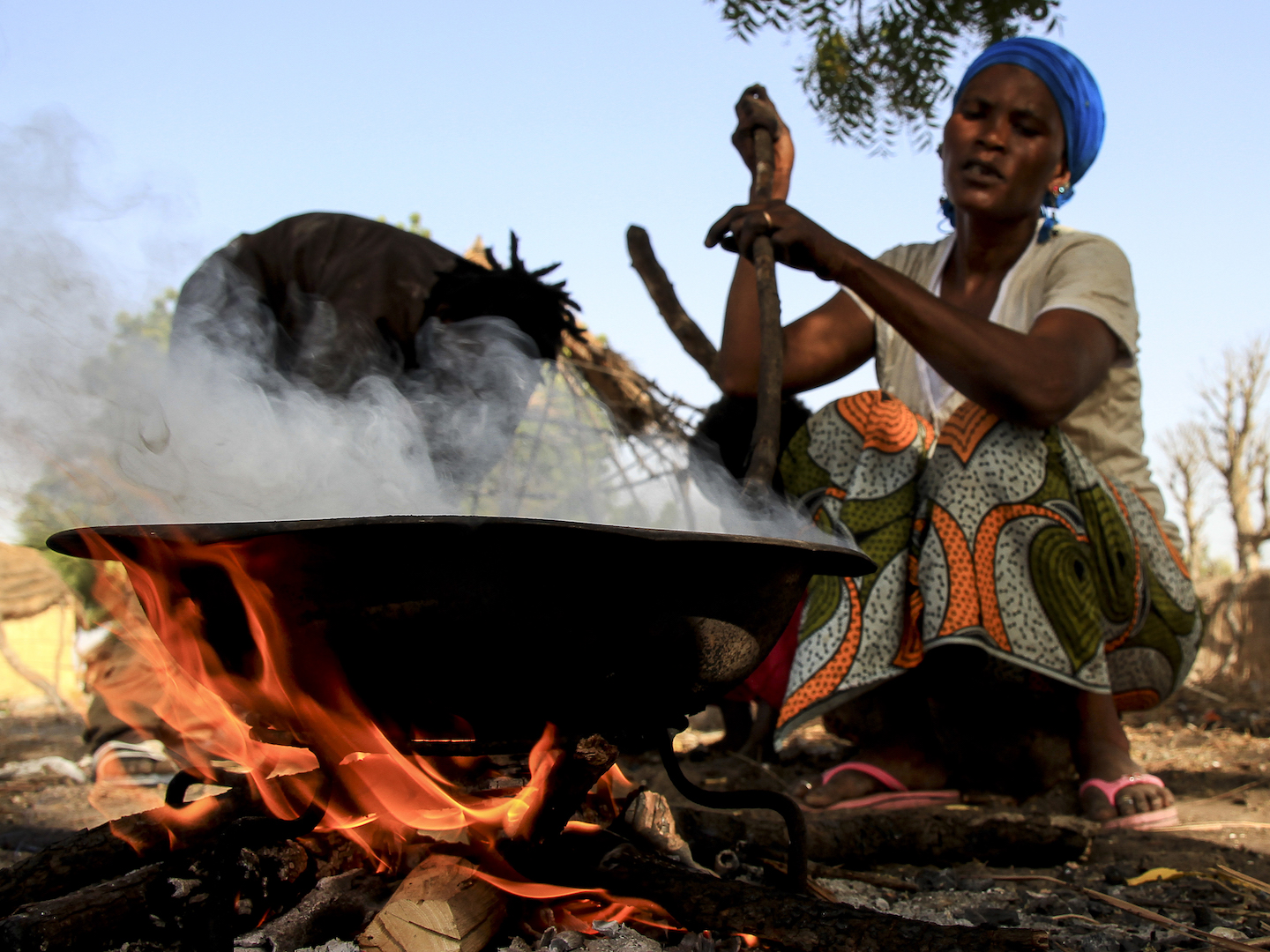 Préparation traditionnelle des noix de Cajou, île de Sipo, delta du Sine Saloum, Sénégal This is an image of "African people at work" from Senegal